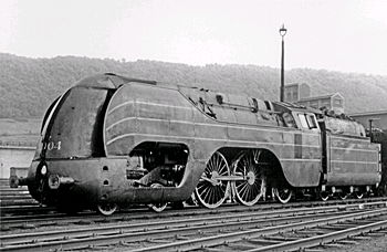 SNCB/NMBS Type 12 Steam Locomotive